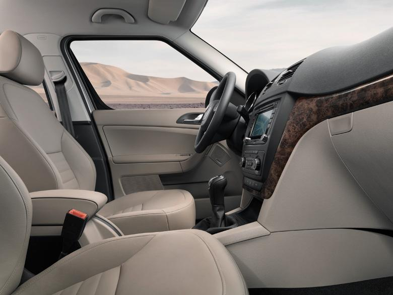 Skoda-Yeti-interior-left-side